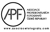 Association of professional photographers Czech Republic